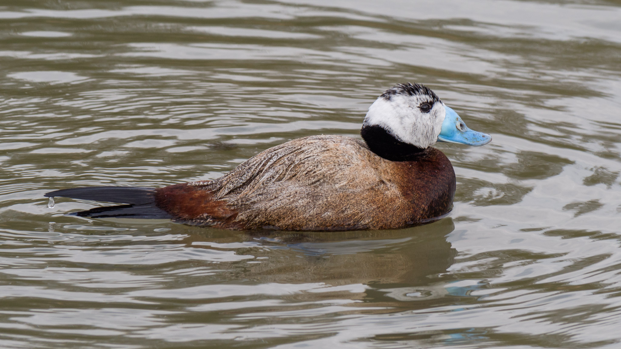 White-headed Duck